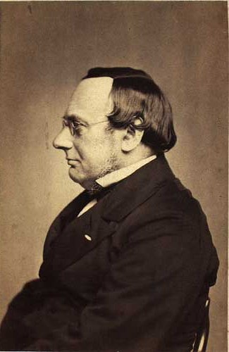 Danish industrialist Jacob Herman Bing (1811-1896), co-founder of the porcelain manufacture Bing & Grøndahl